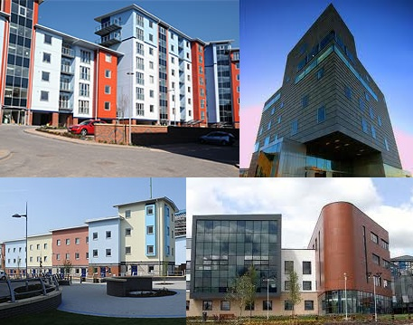 Walsall montage